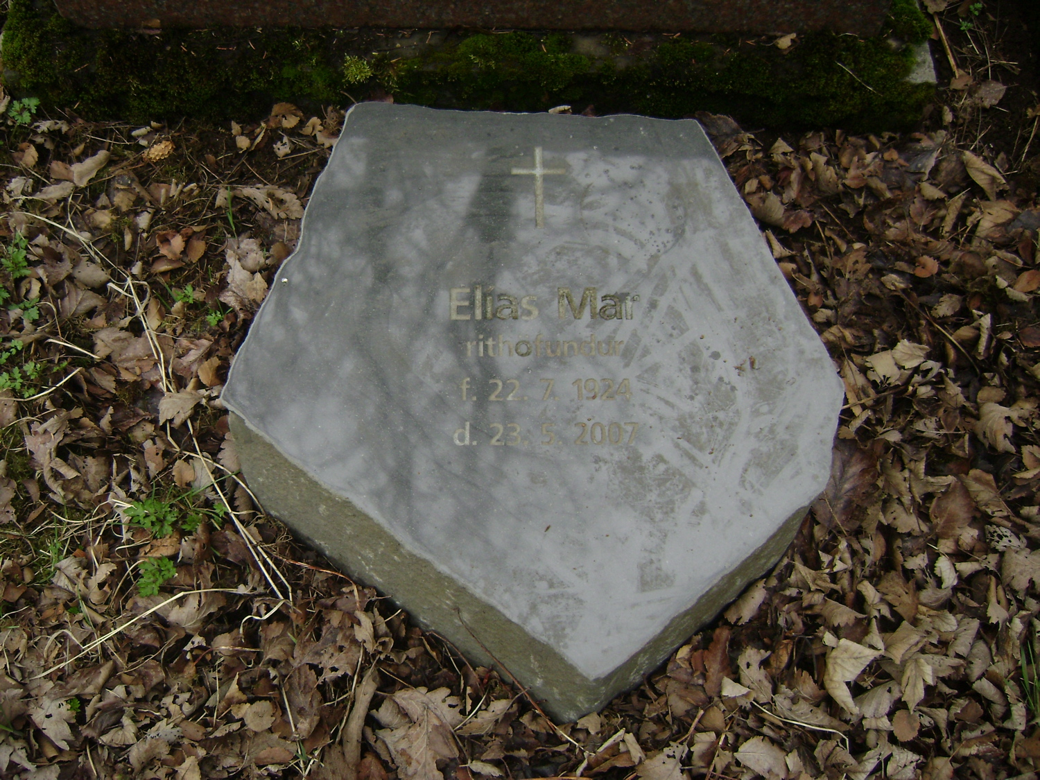 Monument Elías Mar writer Hólavalla cemetery.